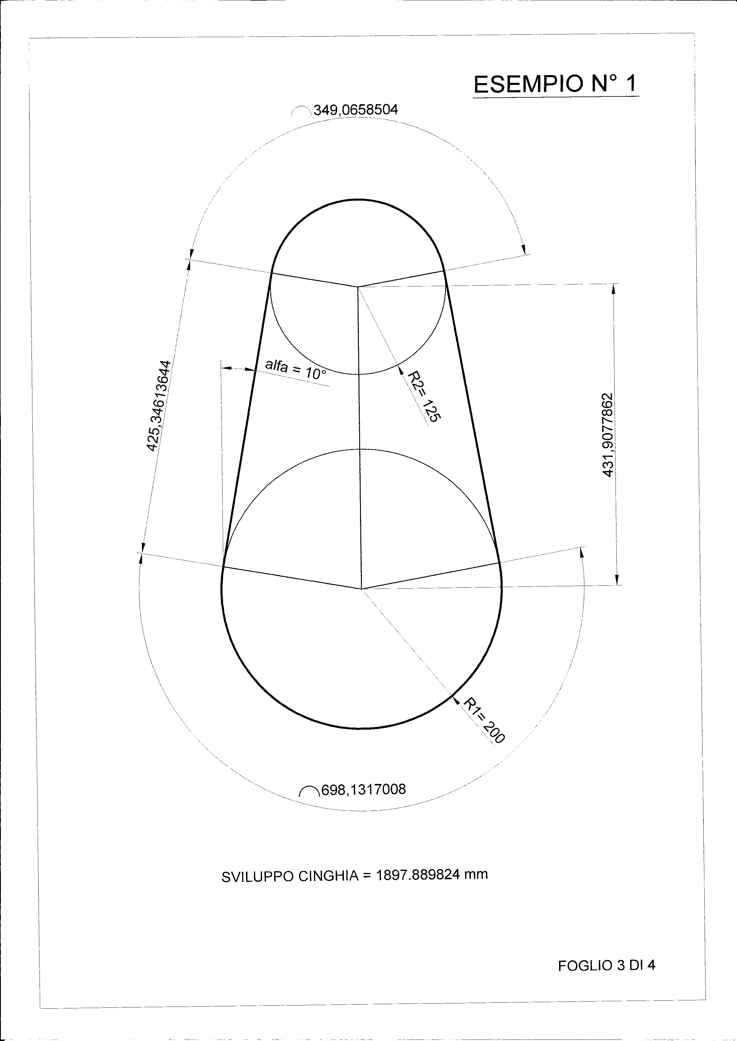 Esempio 1